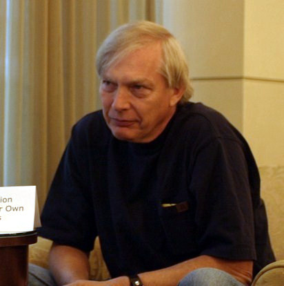 Bob Edwards - Radio Personality at the Third Coast Festival - 10/22/2005